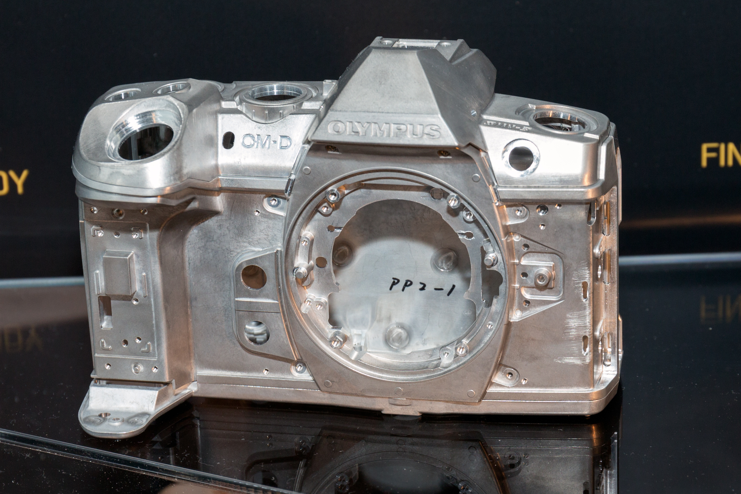 CP+ 2017: 2016 Olympus OM-D E-M5 Mark II magnesium-alloy chassis